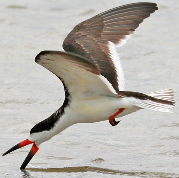 Photograph taken by Googie Man Black Skimmer Rynchops niger feeding